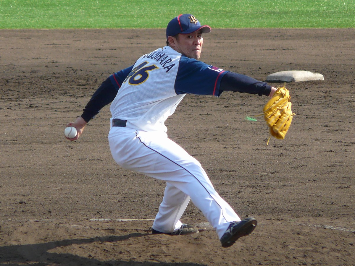 Tsuyoshi Kikuchihara, pitcher of the Orix Buffaloes, at Kobe Sports Park Sub Baseball Ground.